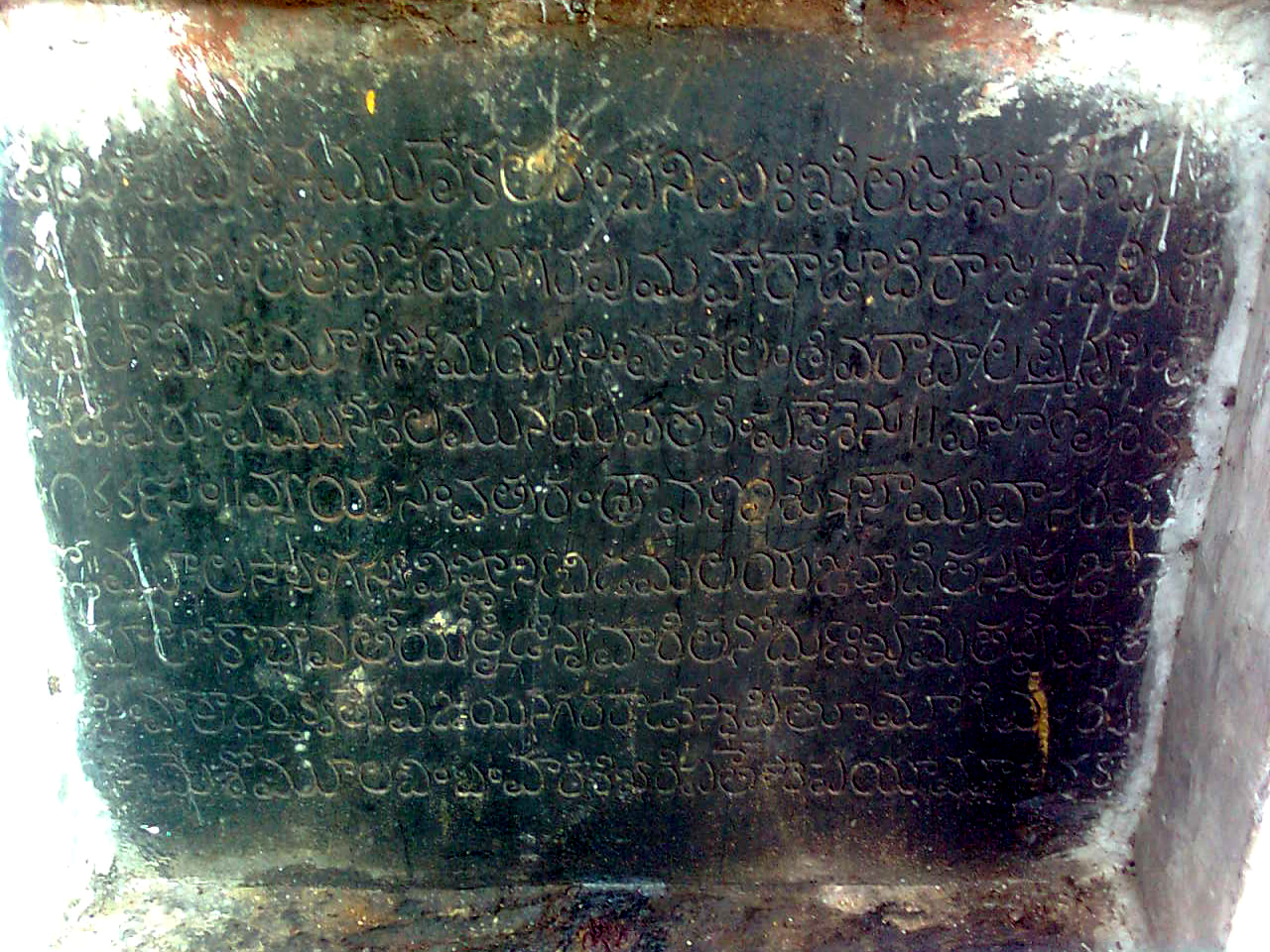 Inscriptions on walkway to Simhachalam, Visakhapatnam